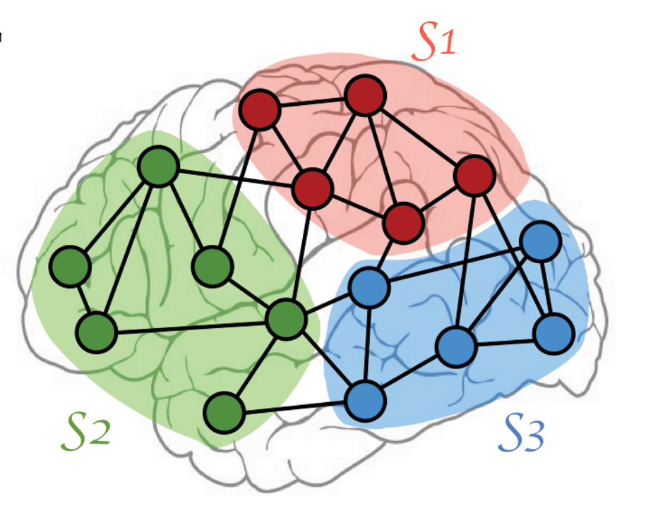 brain network as a graph